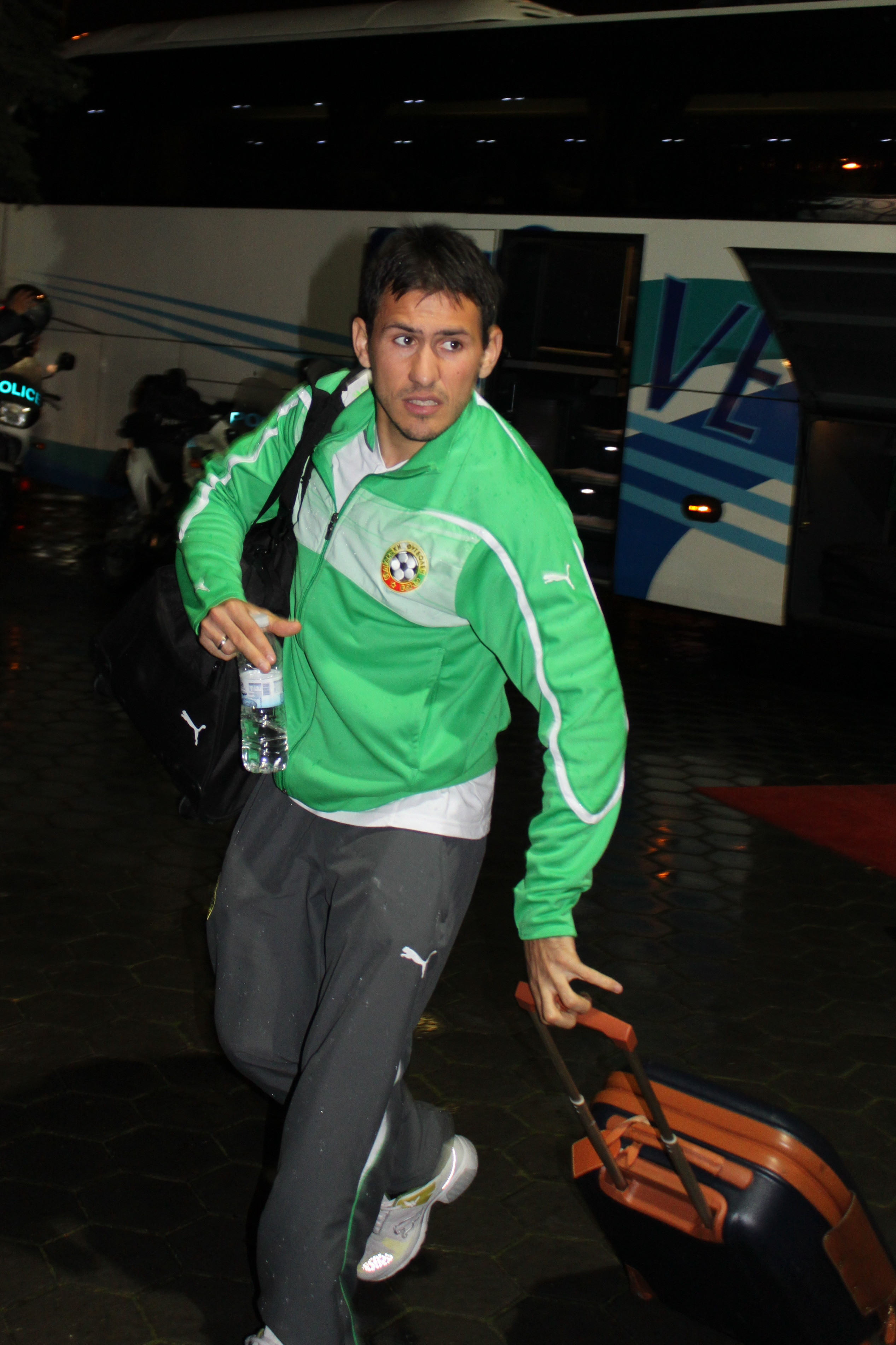 Zhivko Milanov (Bulgarian: Живко Миланов) (born 15 July 1984 in Sofia) is a Bulgarian footballer and a defender who plays for SC Vaslui and for Bulgaria national football team. Zhivko was raised in Levski Sofia's youth teams.